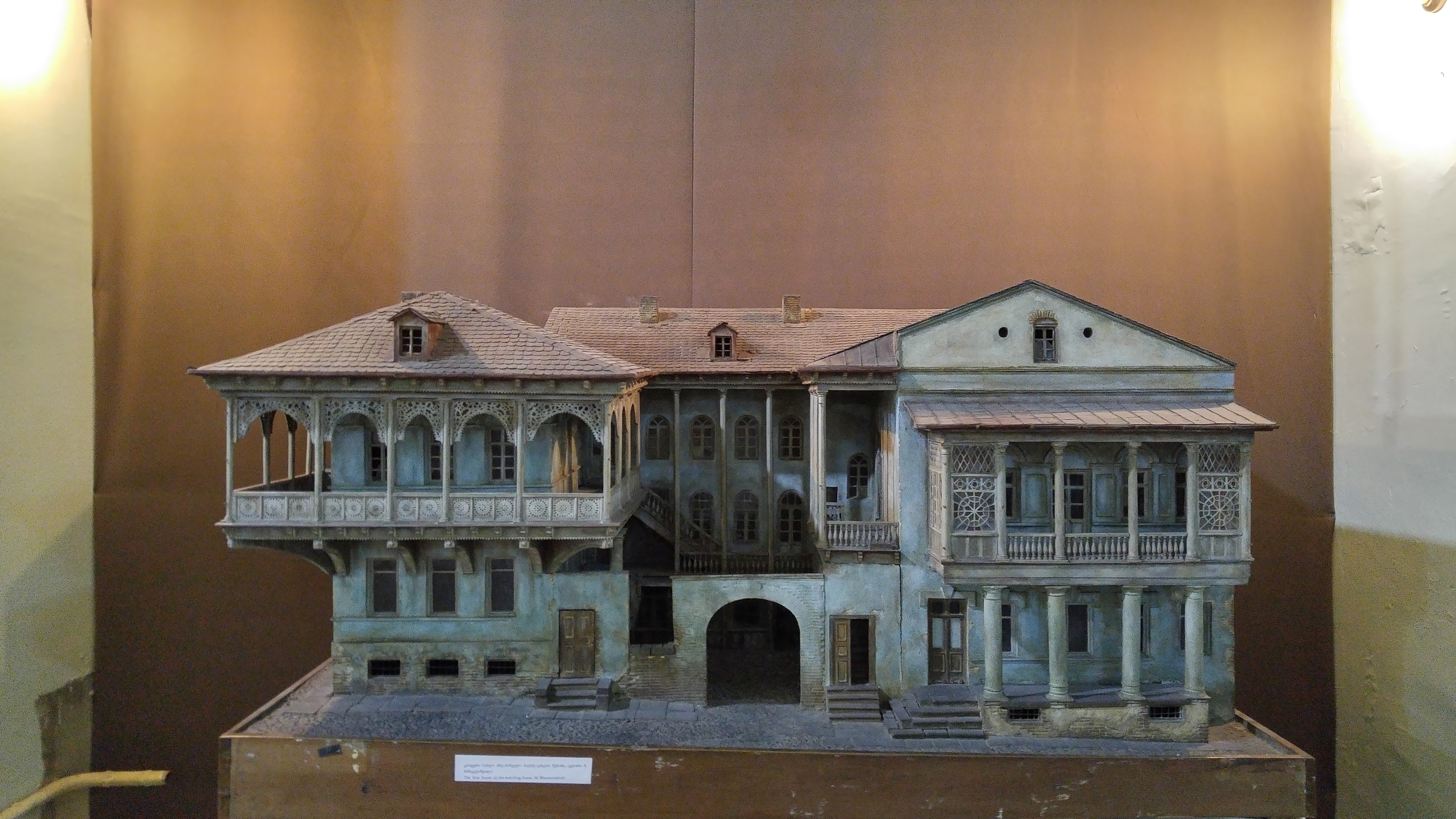 Small museum on the history of Tbilisi, exhibiting a collection of artifacts & old photographs.